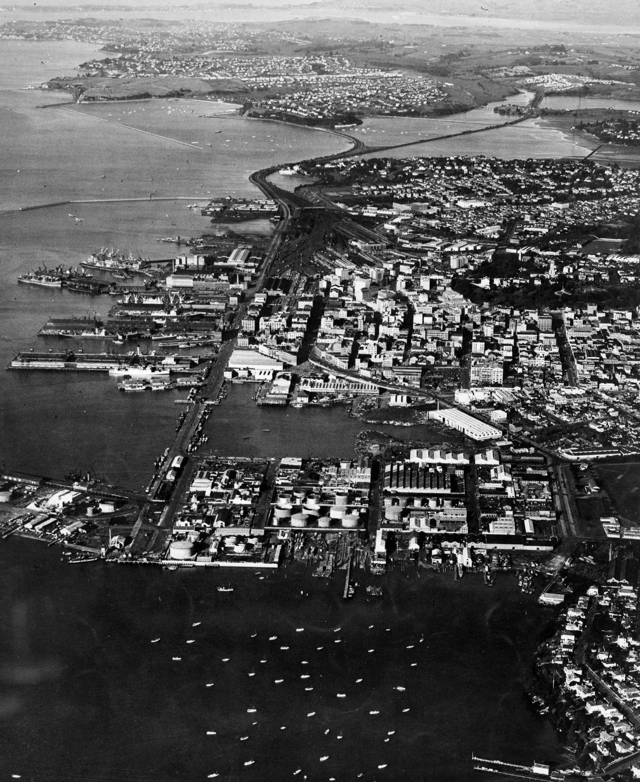 Looking east over what will one day become Wynyard Quarter in the foreground, then the Auckland CBD in the middle distance, and Hobson Bay in the distance. New Zealand in the 1950s. Coordinates approximate, but reasonably exact in the north-south axis, and likely somewhere above Point Erin. Extended information on origin webpage reads: Aerial view of Auckland City's waterfront circa 1950s. Looks east towards Mechanics Bay with the Westhaven Boat Harbour in the foreground. Taken by an unidentified photographer.